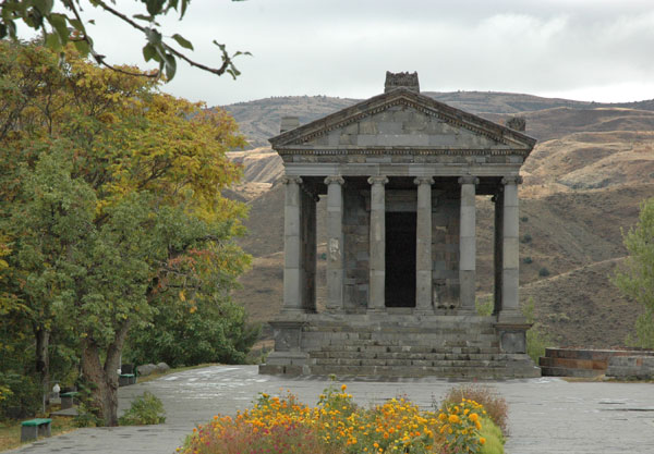 Reconstruction of the Garni temple, Armenia. The original building was from the late first century, and dedicated to Helios (in this context meaning the syncretic Helleno-Armenian cult of Helios-Mher). Following Armenia's conversion to Christianity, the building served as a summer residence of the Armenian monarchs. The structure was destroyed by an earthquake in 1679, and reconstructed from the ruins in the late 1960s-early 1970s.